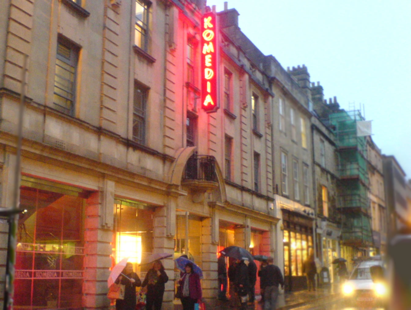 The Komedia Bath arts and entertainment venue on Westgate Street, Bath, Somerset, England. This photograph was taken on its opening night, 13th November 2008.